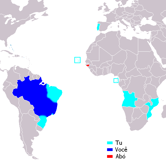 Portuguese second person singular pronoun usage.